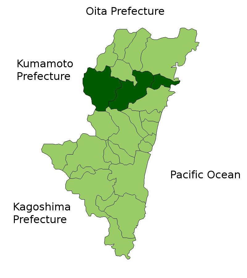 Location Map of Higashiusuki District in Miyazaki Prefecture, Japan